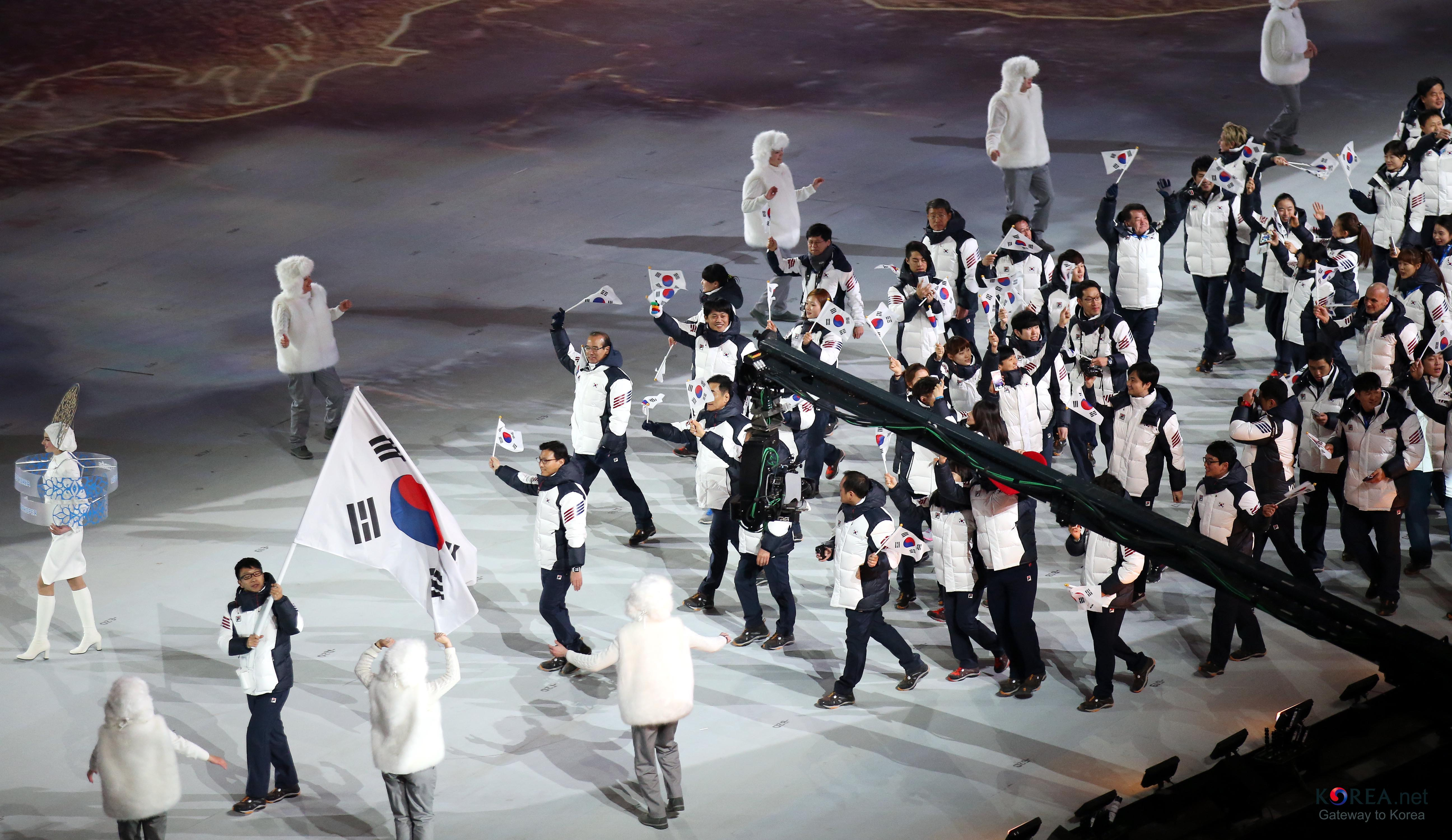 The Sochi 2014 Winter Olympic Games The Opening Ceremony February 7, 2014 Sochi, Russia Photo: The Korean Olympic Committee Related Articles Cheong Wa Dae -English- Winter Olympics open in Sochi -English- Winter Olympics open in Sochi -Russian- Зимние Олимпийские игры открылись в Сочи 2014 소치 동계올림픽 개막식 2014-02-07 러시아, 소치 사진: 대한체육회